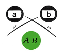 Ouchterlony double immuno diffusion pattern of complete antigen identity. Recompiled and formatted by 2006 IMM435 Class of the University of Toronto